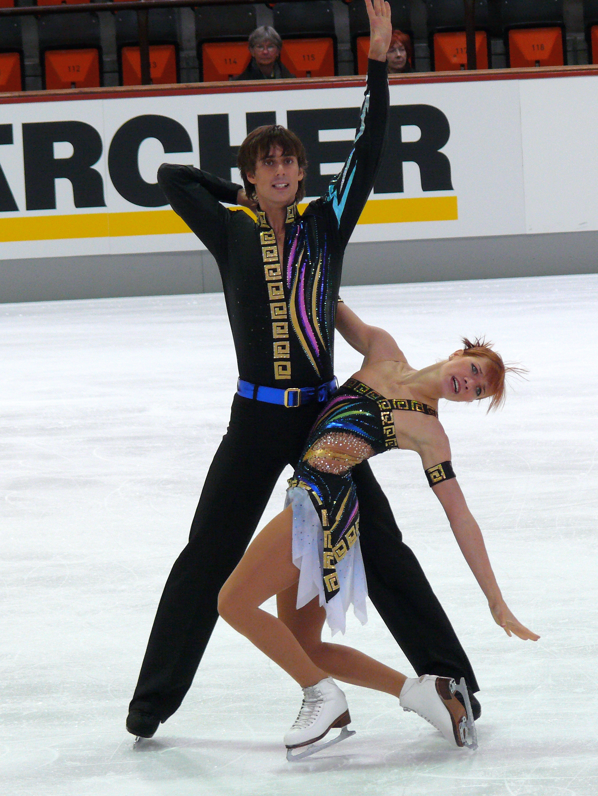 Kamila Hájková and David Vincour (CZE) at their free dance at the Nebelhorntrophy 2008 in Oberstdorf, Germany